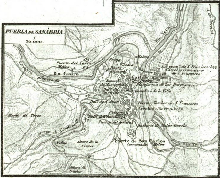 Map of Puebla de Sanabria cropped from the 1863 province of Zamora map by Francisco Coello